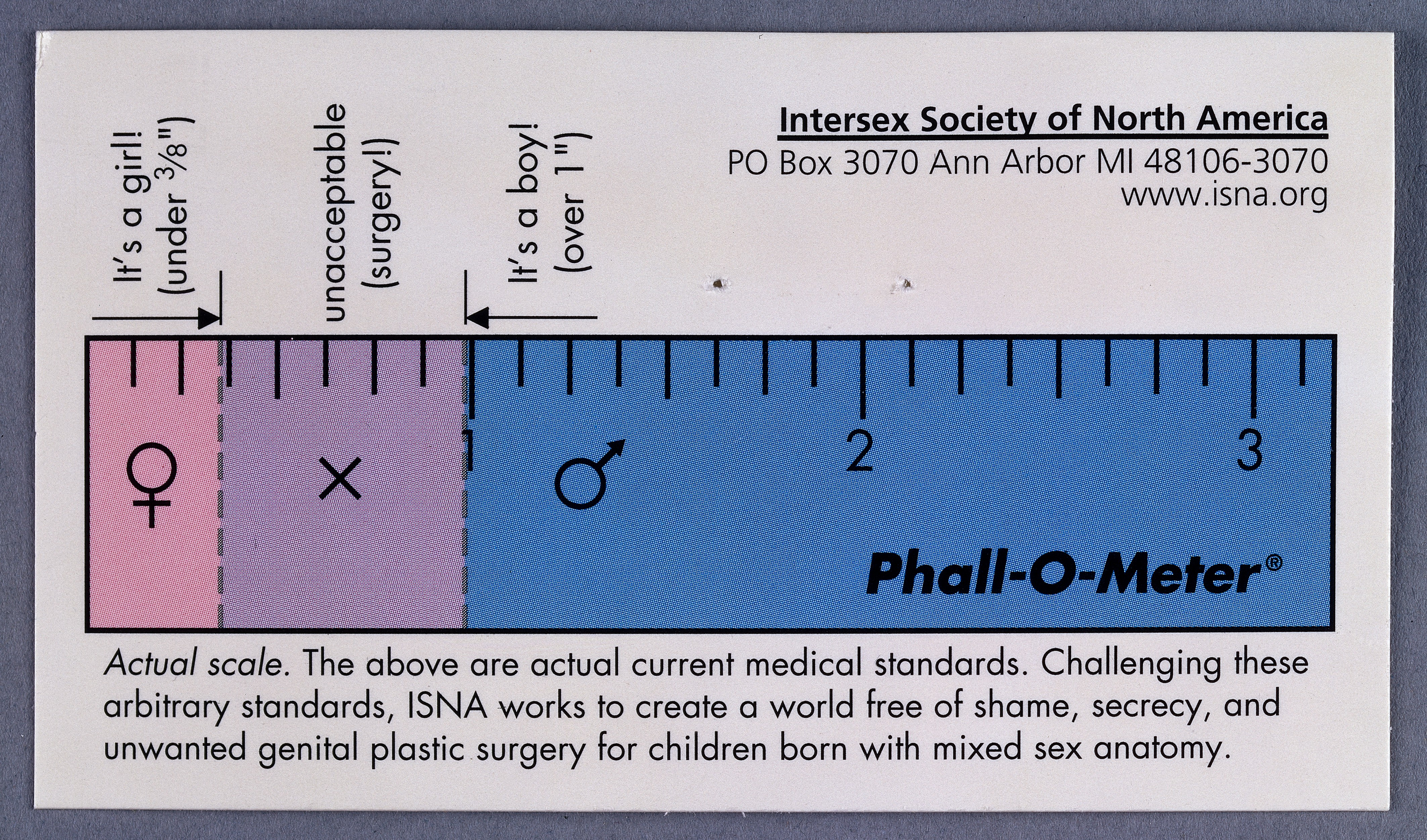 Intersex Society of North America PO Box 3070 MI 48106-3070 'Phall-O-meter' (Showing in actual scale current medical standards employed to determine nature of genital plastic surgery for children born with mixed sex anatomy) In copyright ? Wellcome Images Keywords: intersex; mixed sex anatomy; medical standards; isna